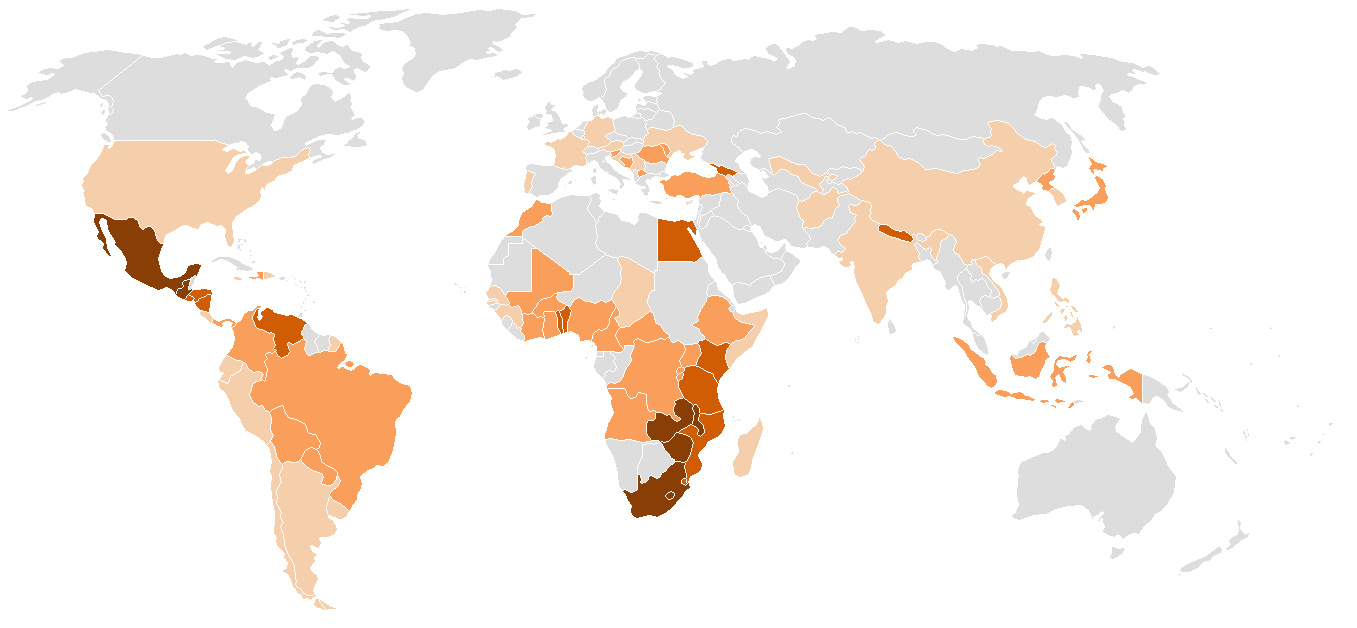 Maize: Average per capita between 1995-1997 (kg/yr) [1] ██ more than 100 kg/yr ██ from 50 to 99 kg/yr ██ from 19 to 49 kg/yr ██ from 6 to 18 kg/yr ██ 5 or less ↑ According to 2000 CIMMYT World Maize Facts and Trends.